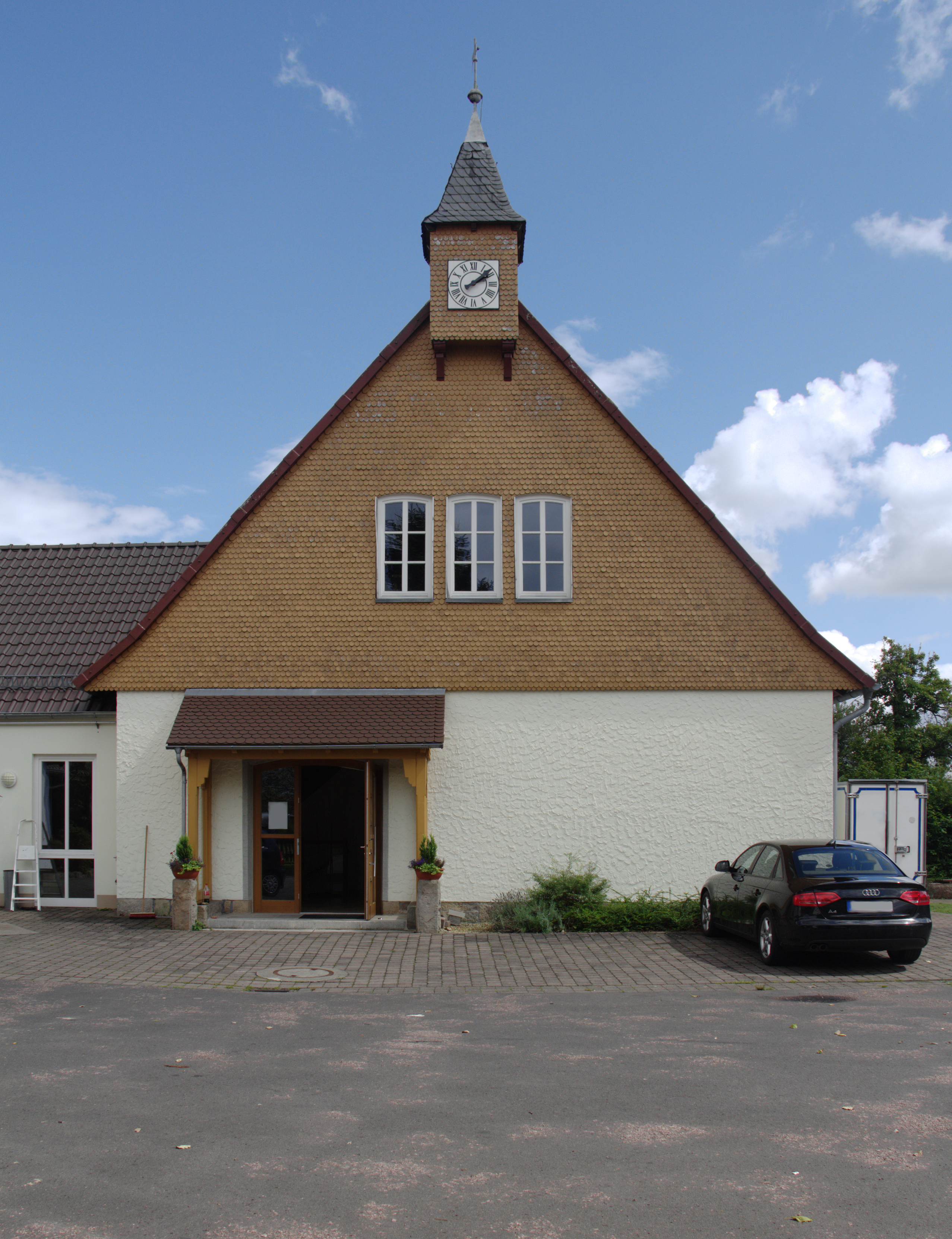 Community Centre in Traetzhof, Fulda, Hesse, Germany